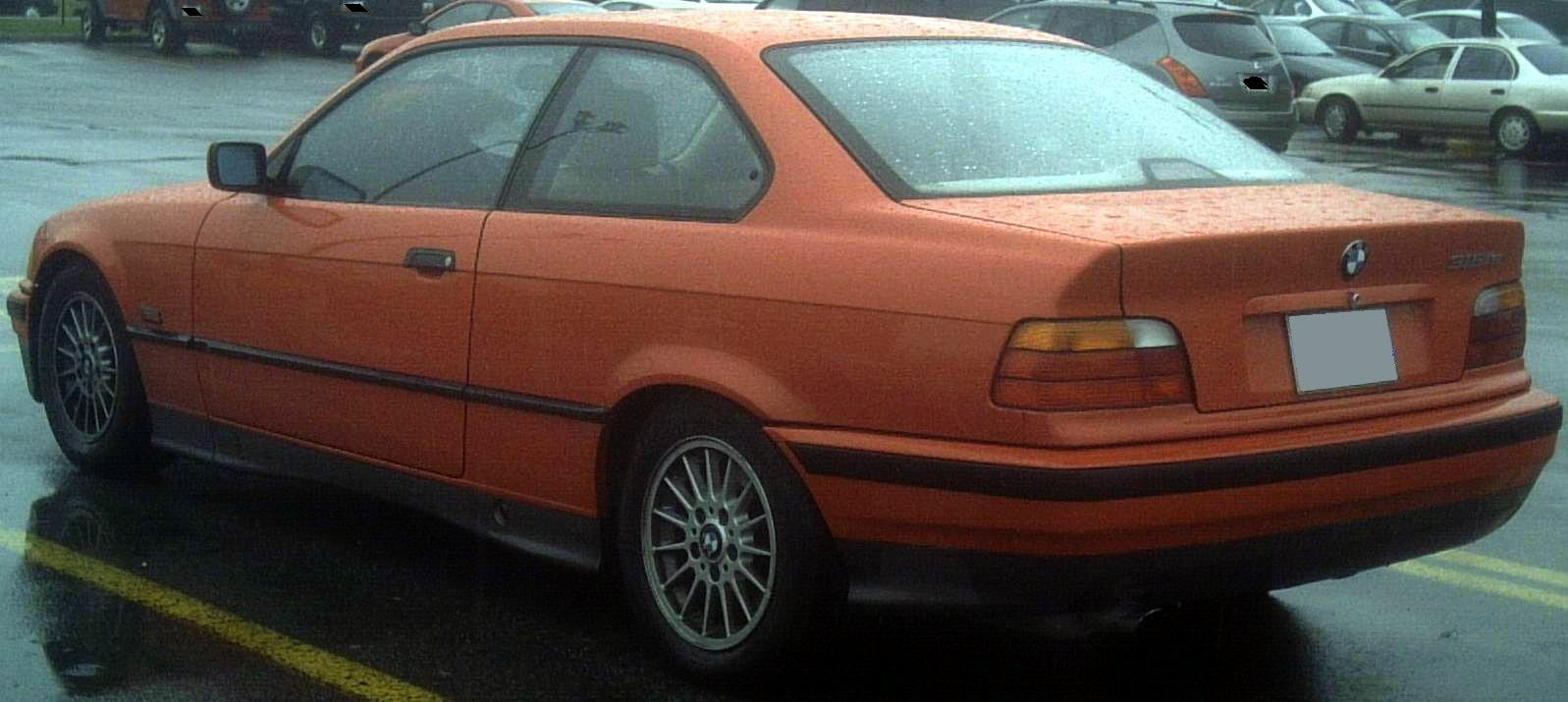 1991-1998 BMW 3 Series coupe photographed in Montreal, Quebec, Canada.